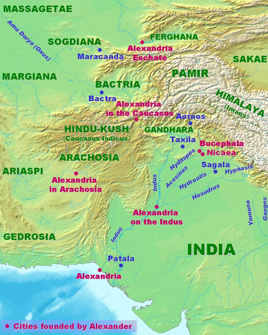 Map of Alexander's campaigns in India. Personal creation 2007. Reference "Diodorus of Sicily", Harvard University Press.